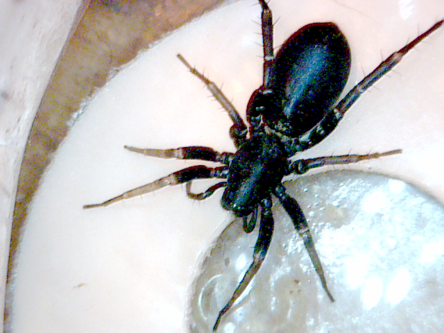 Castianeira_sp, longipalpa or variata (female) photo made with Dino-Lite microscope that has an illumination system that accentuates the violet and UV end of the spectrum. Under sunlight this spider is brown. Spider collected indoors at 36° N 80° W. Body length is about 3/8" or 1 cm.